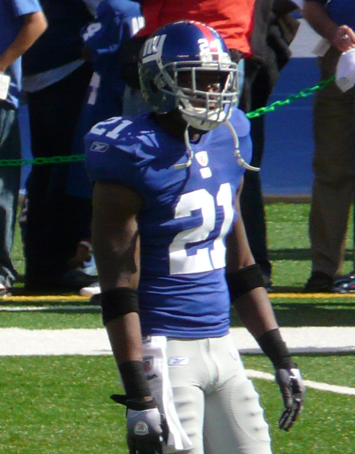 Kenny Phillips in 2010. This file has been extracted from another file: Aaron Ross and Kenny Phillips.jpg